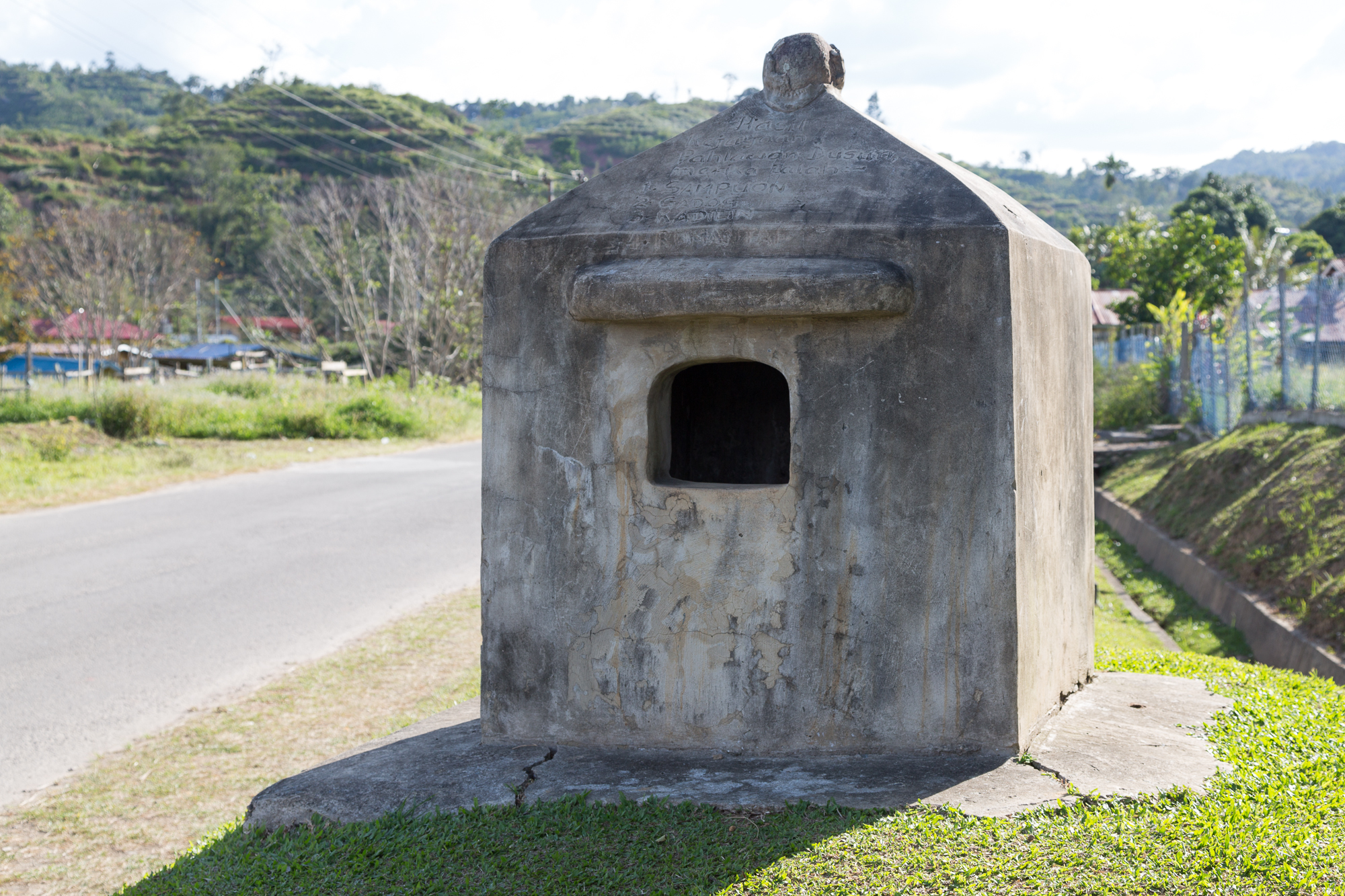 Kg. Sunsuron, Sabah: Sunsuron Head-House